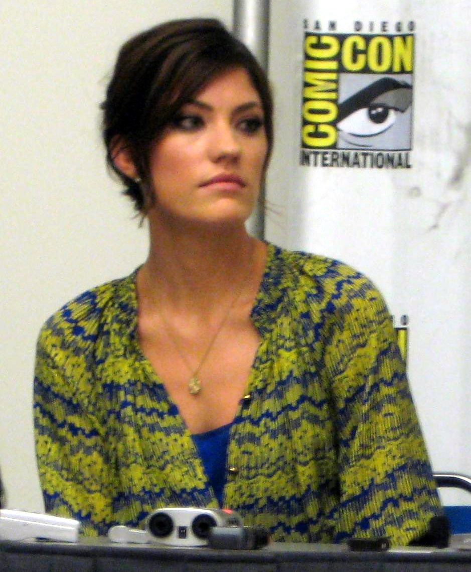 Actress Jennifer Carpenter – Comic-Con 2009 - Dexter press room - San Diego, Calif. - July 23, 2009.